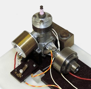 Atom Minor is possibly one of the most significant compact internal combustion engines every made. Built by Edgar T. Westbury to his own design, it was used in record breaking free-flight model aircraft and boats by C.E. Bowden. It is now in the collection of the Society of Model and Experimental Engineers.